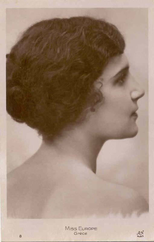 Aliki Diplarakou, Lady Russell, (28 August 1912 - 30 October 2002) was the first Greek contestant to win the Miss Europe title. Aliki Diplarakou was married first on 31 October 1932 to French aviator and businessman Paul-Louis Weiller, and then on 15 December 1945 to Sir John (Jack) Wriothesley Russell, an English aristocrat who was descended from John Russell, 6th Duke of Bedford.